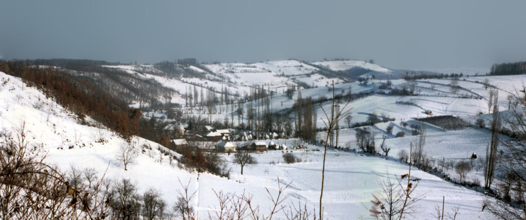 Winter in Kaludra